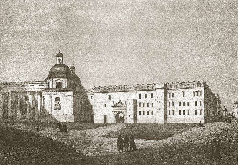 Royal Palace in 19th century, Lithuania